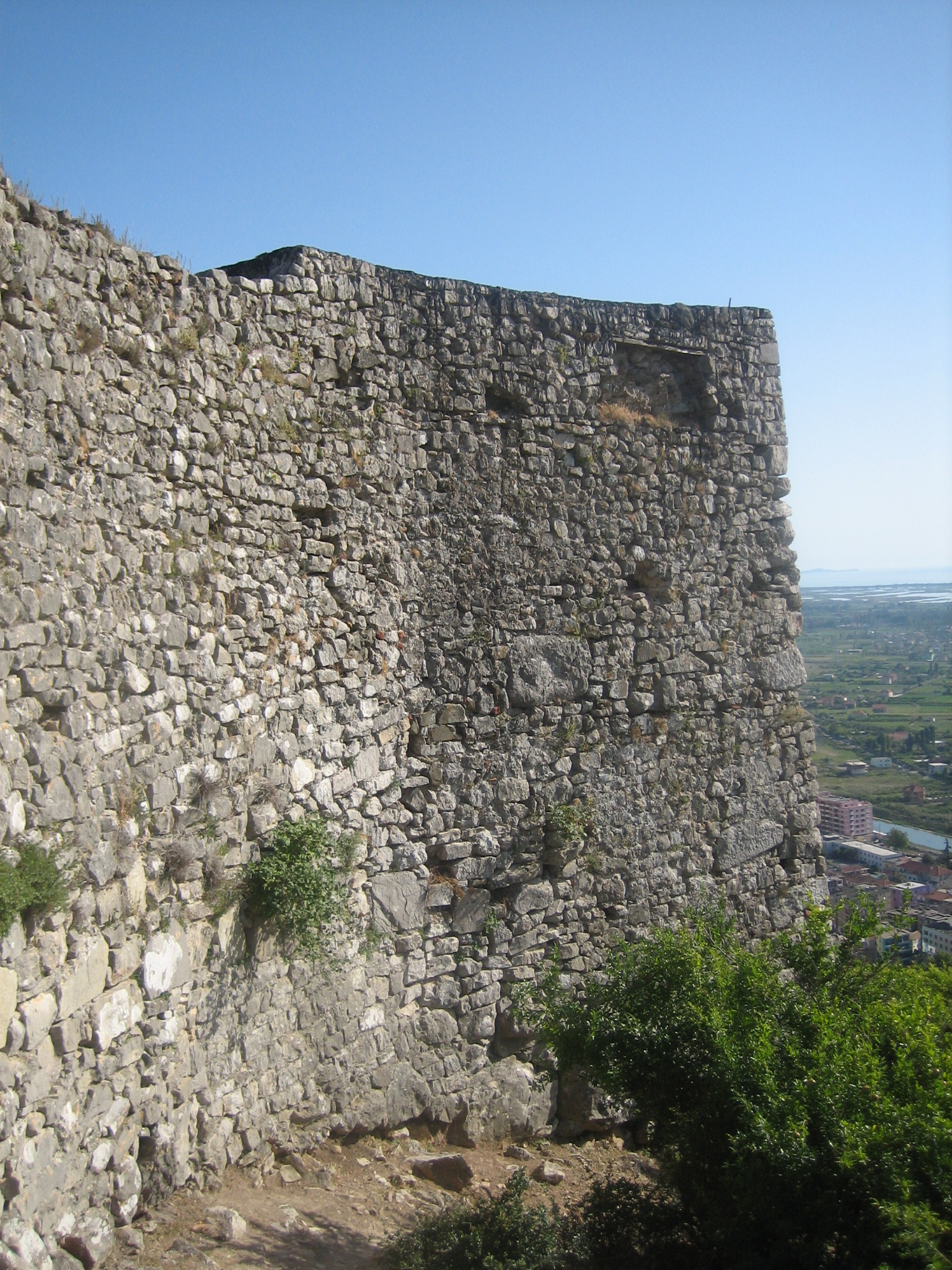 Exterior wall of Lezhë Castle, Lezhë, Albania